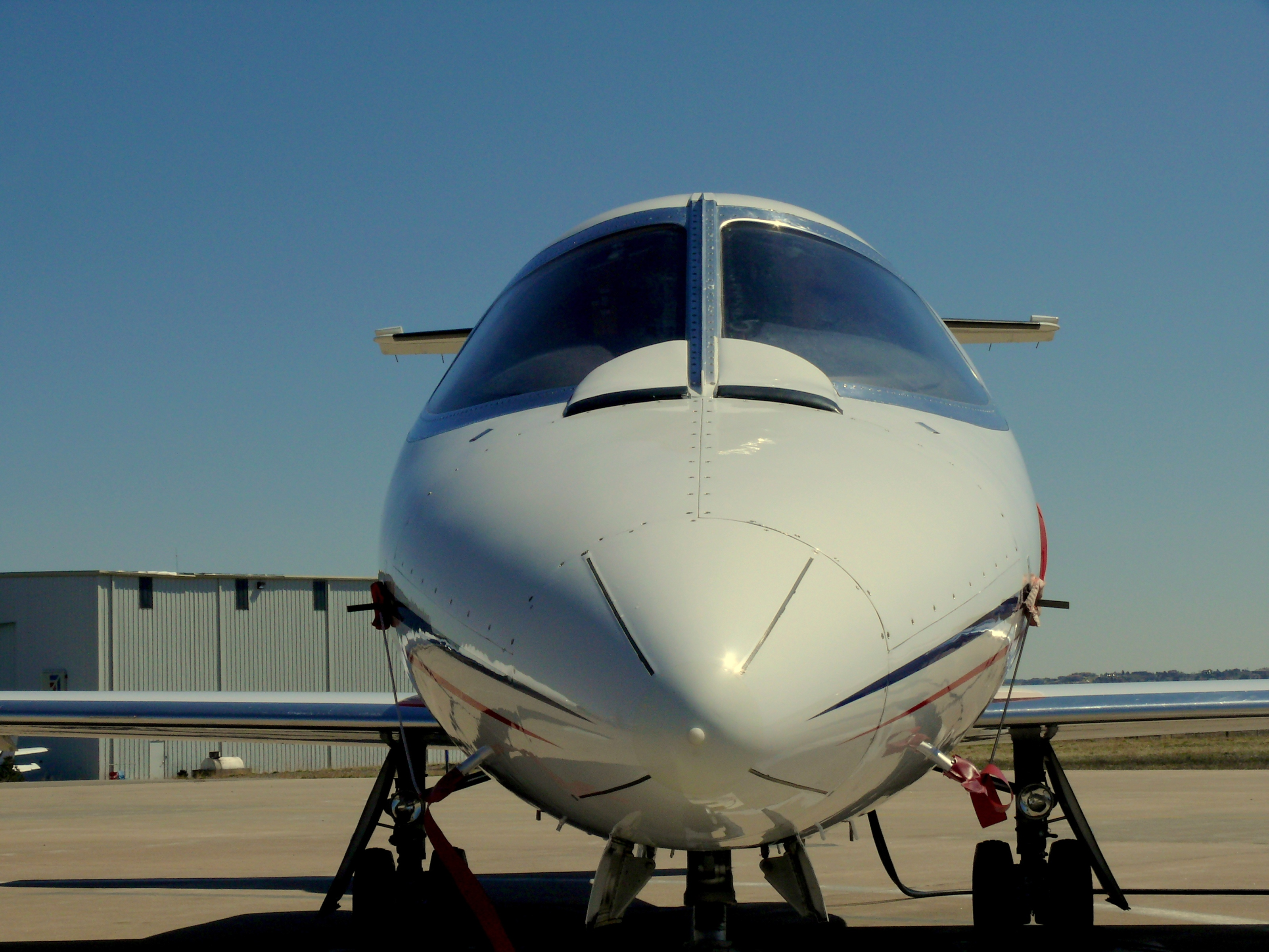 A Learjet 25D photographed at Centennial Airport.